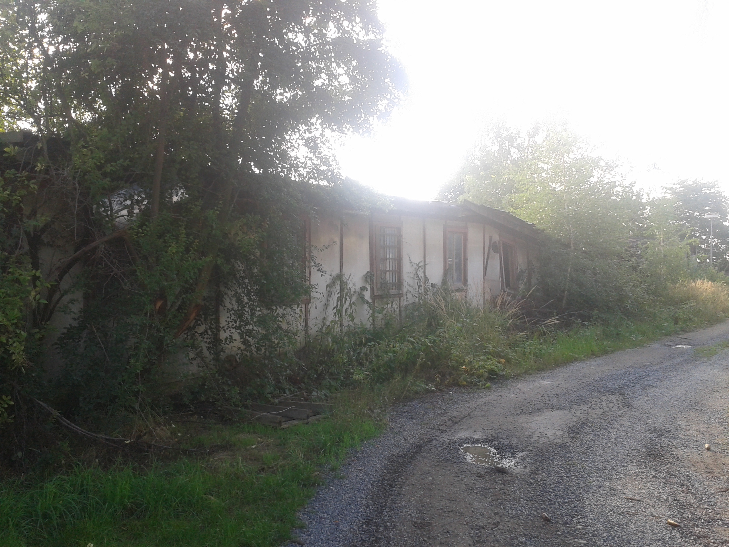 The original building of barracks od crew of the firing position of the anti-aircraft artillery battery Točná was a wooden building, which is evident from its dilapidated condition